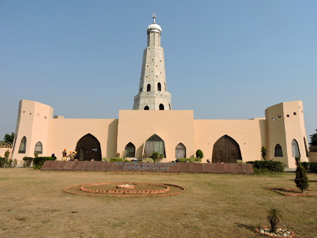 Fateh Burj , Banda Singh Baahadur memorial ,Chapadchidi, Punjab ,India